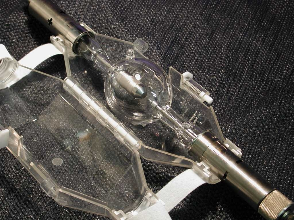 An 3 KW Xenon Short-Arc Lamp used in medium size movie theatre projectors. It is approximately 12 inches long. The xenon gas inside this lamp is at extremely high pressure, even when the lamp is not operating. The plastic shield surrounding the lamp is designed to contain pieces of the lamp envelope if the lamp is dropped and explodes during shipping.